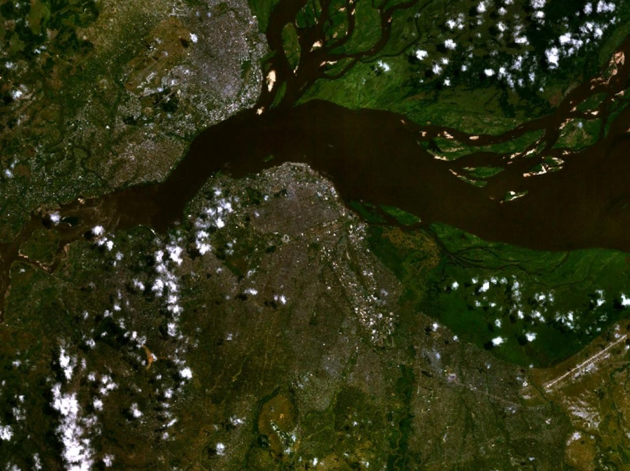 Kinshasa